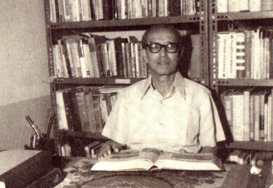 H. S. Krishnaswamy Iyengar (H. S. K.) in his library at Saraswathipuram residence, Mysore.